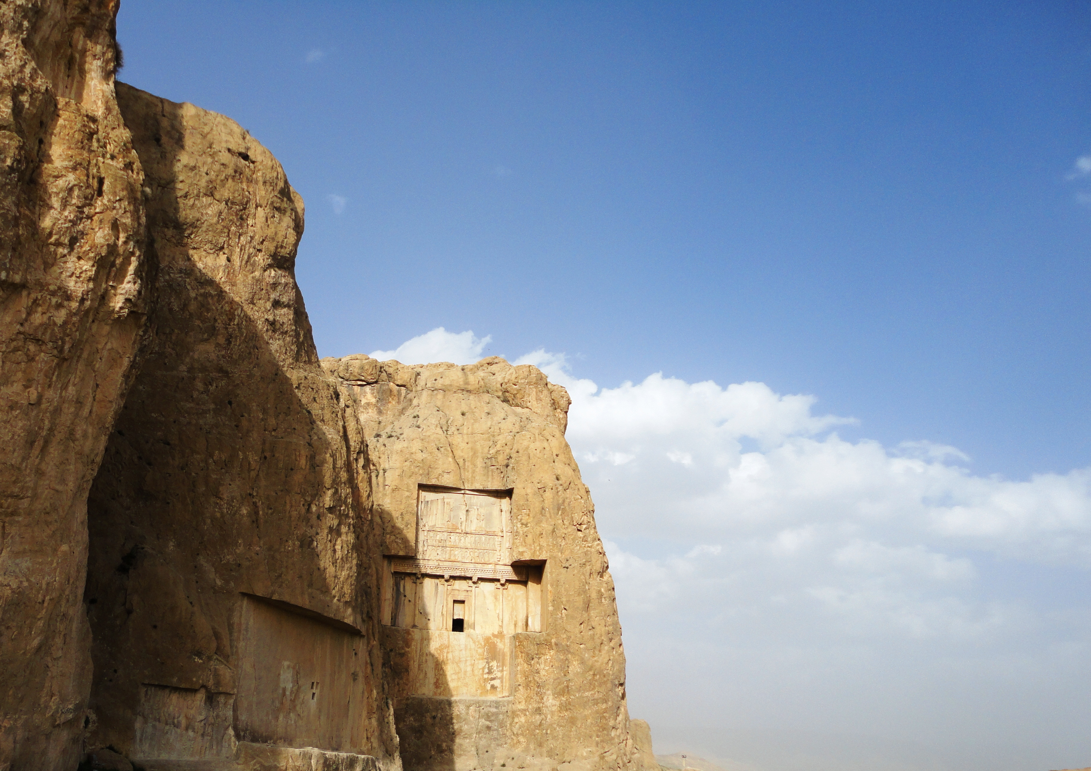 nagh-e-rostam